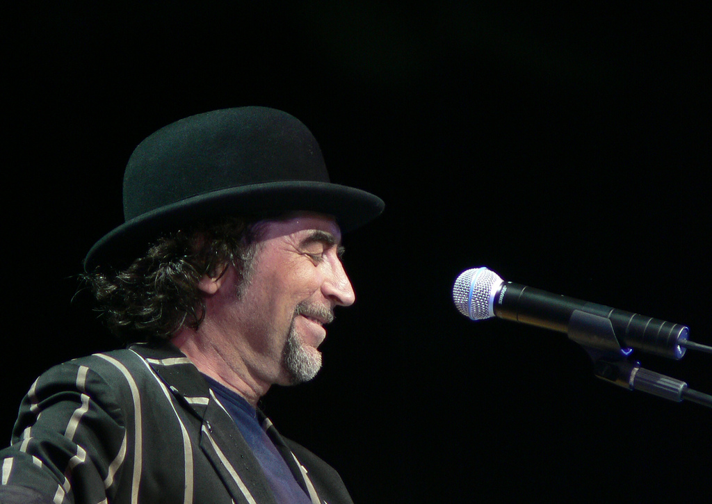 Joaquin Sabina's concert in Las Palmas de Gran Canaria (Spain)